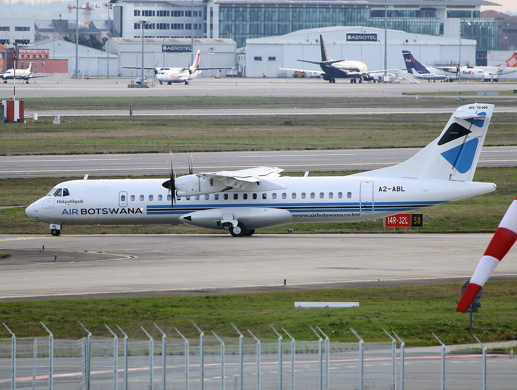 Air Botswana ATR72-212A A2-ABL